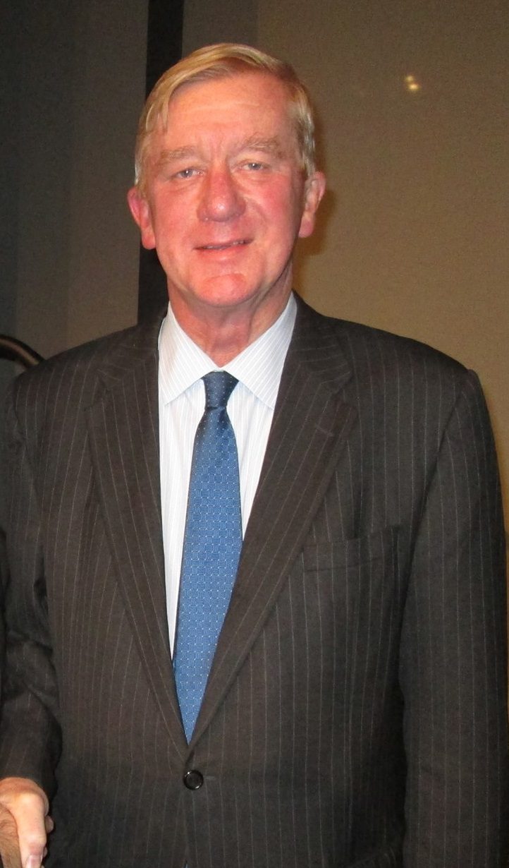 Former Governor of Massachusetts William Weld